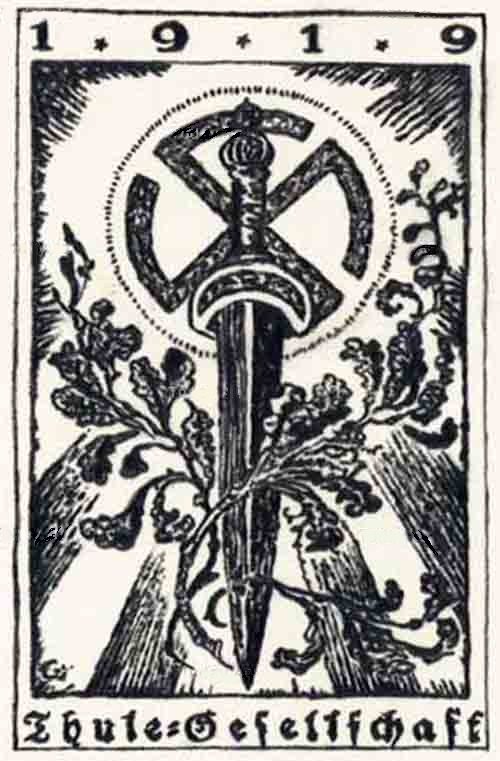 Thule Society emblem.